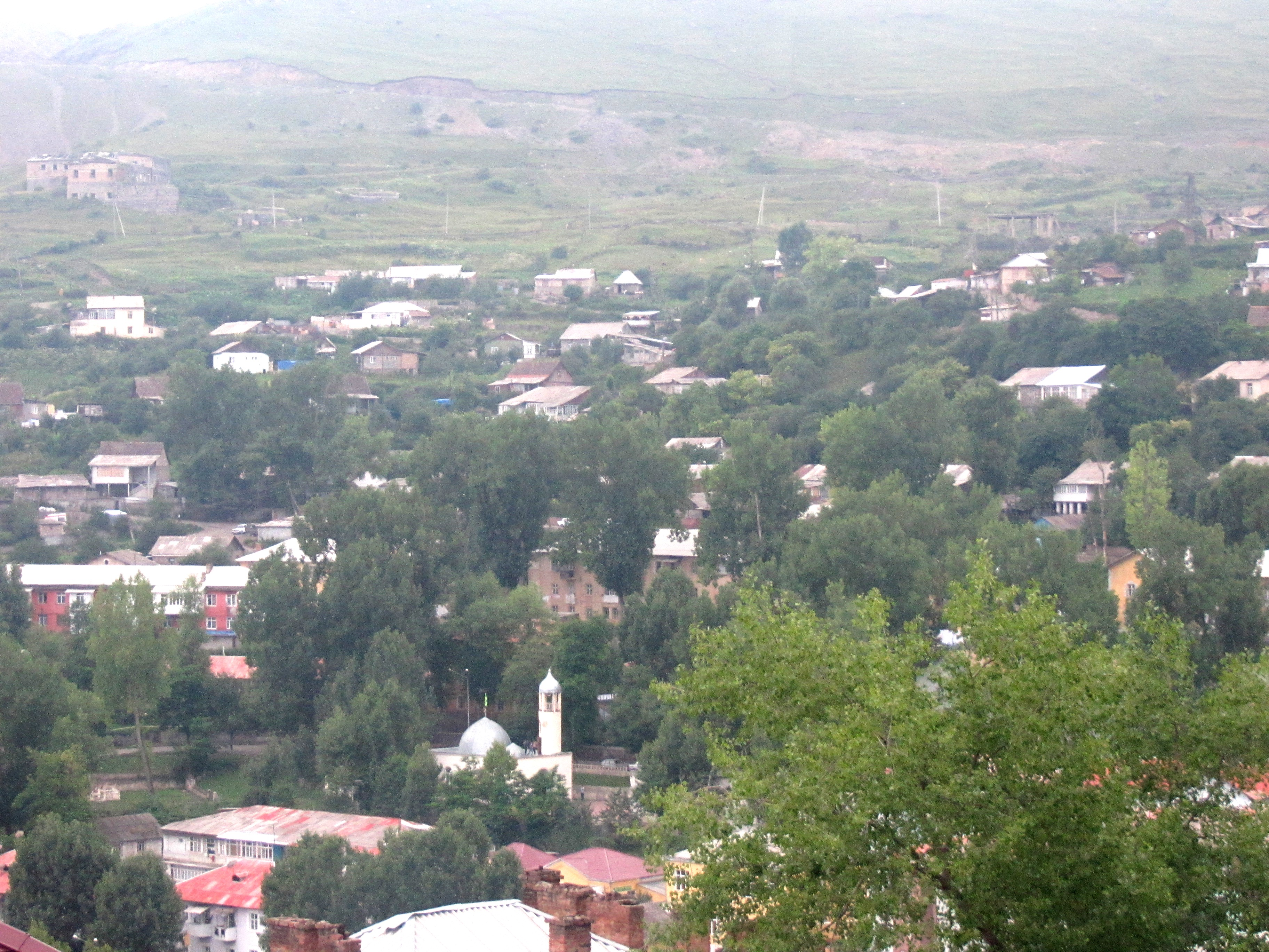 Dashkasan (Azerbaijani: Daşkəsən) is a city and municipality in and the capital of the Dashkasan Rayon of modern Azerbaijan.